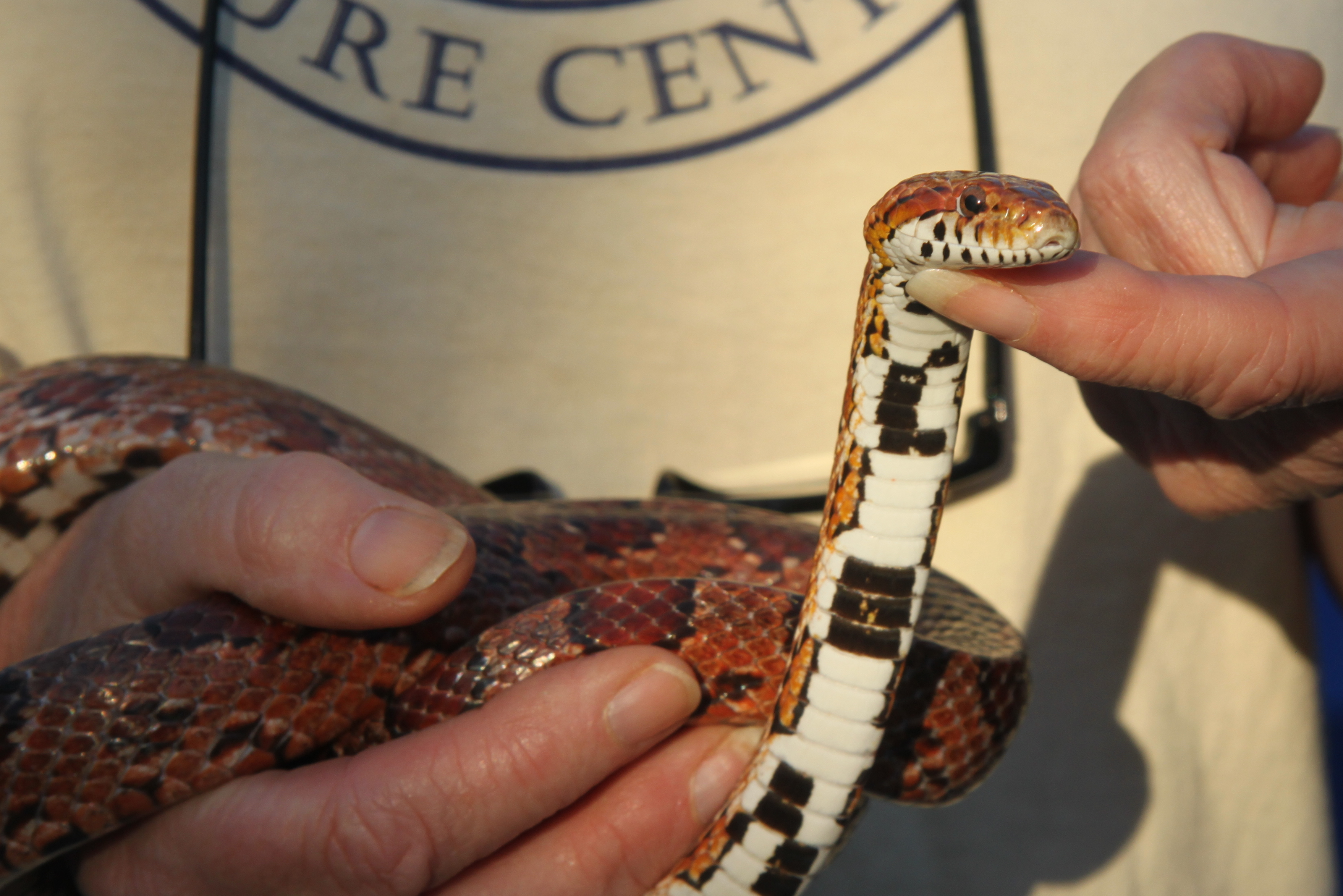 Chattahoochee Nature Center - Corn Snake-001